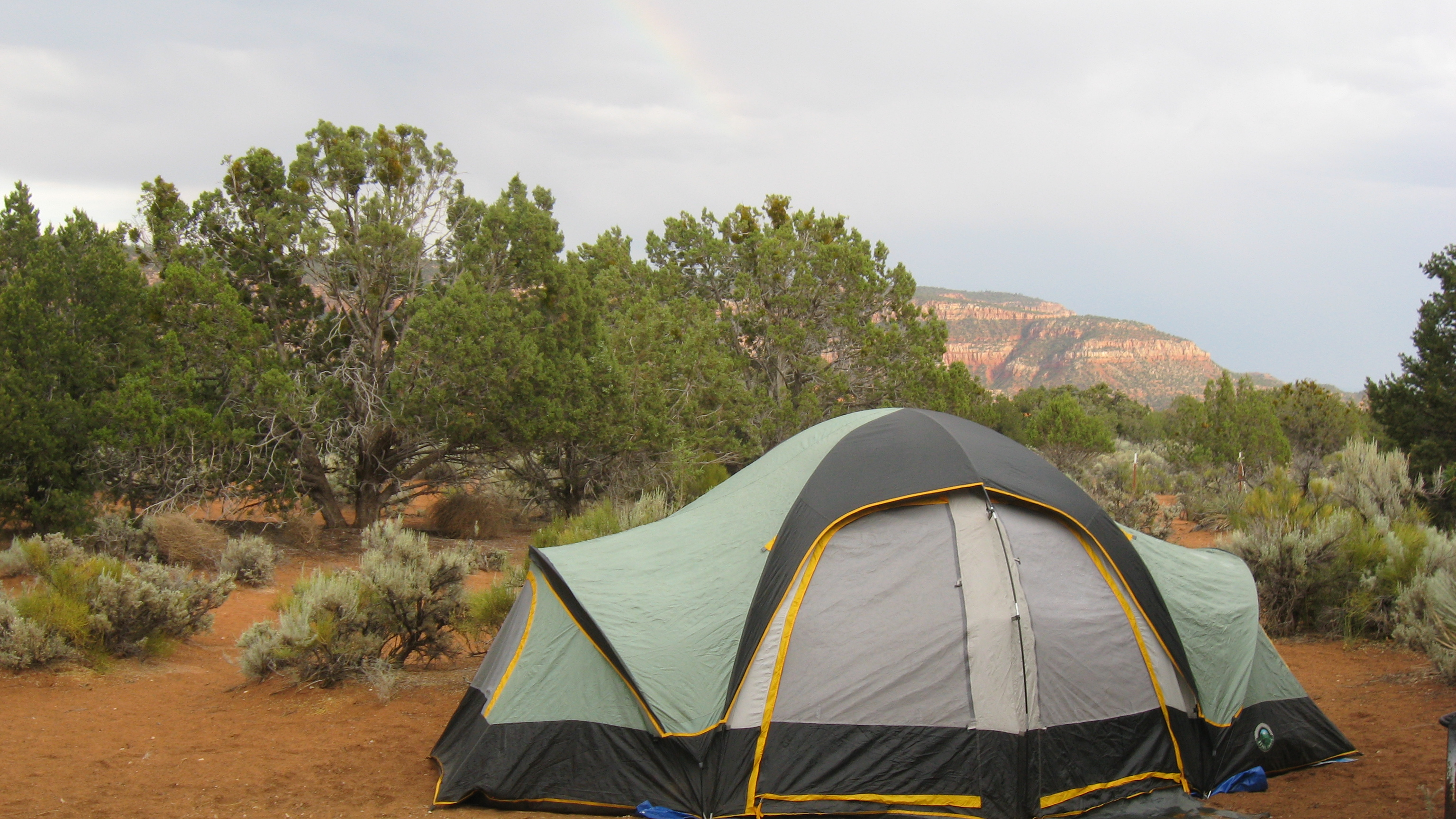 Coral Pink Sand Dunes State Park Campground, with a rainbow in the background